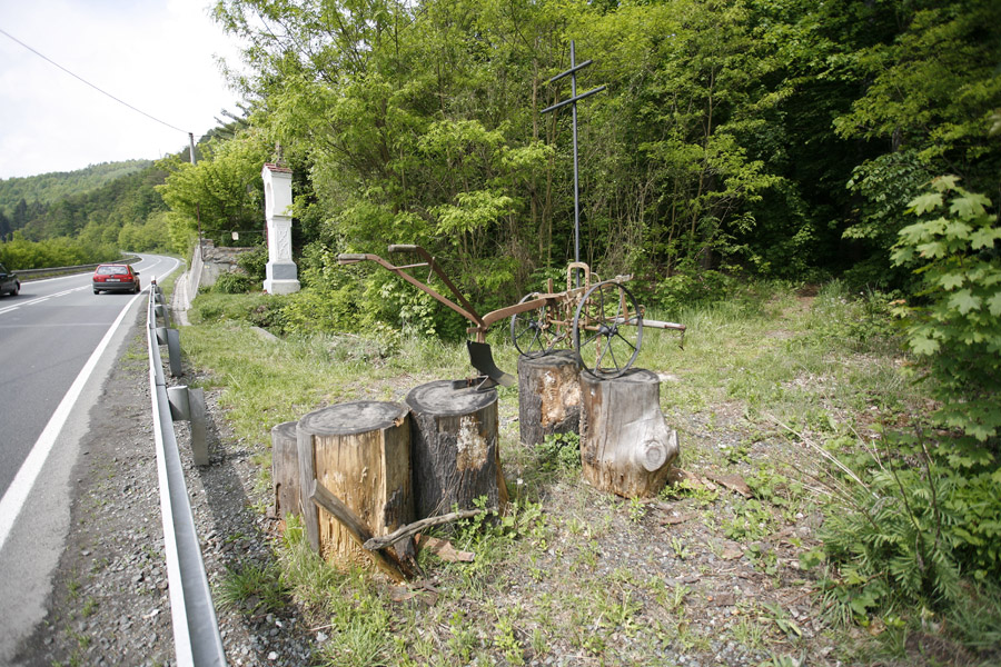 Entry to the Devil furrow